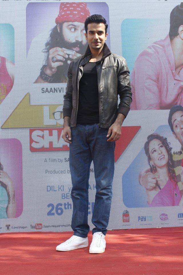 Manit Joura at a promotional event for Love Shagun in 2016